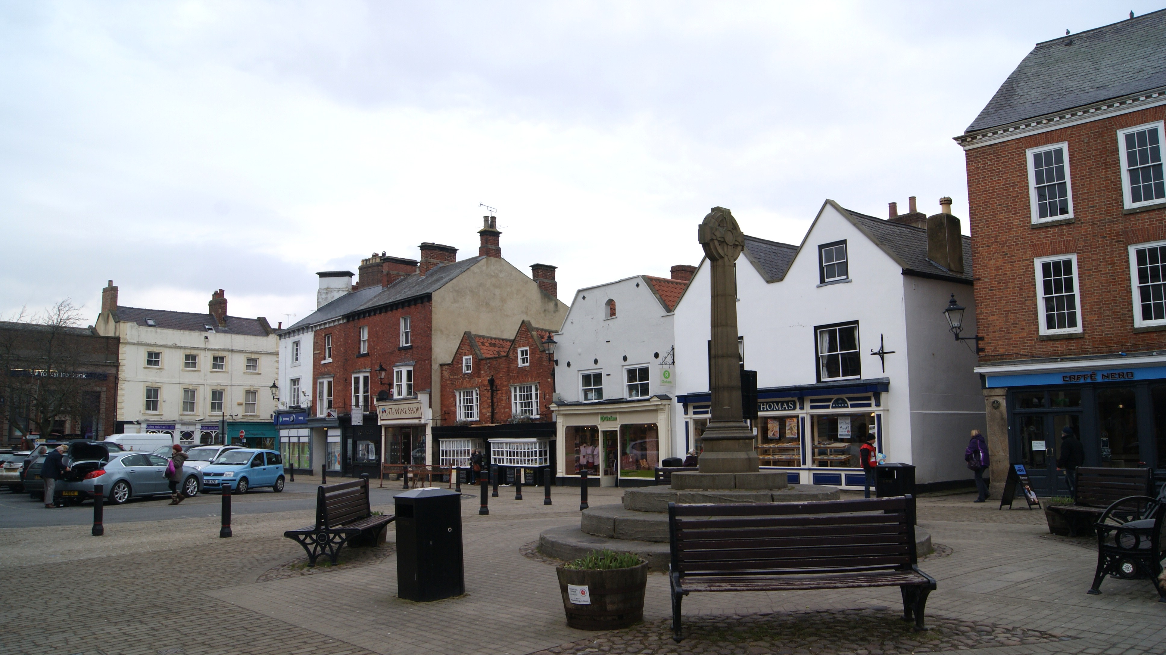 Market Place, Knaresborough, North Yorkshire.. Taken on the afternoon of Tuesday the 19th of March 2013.